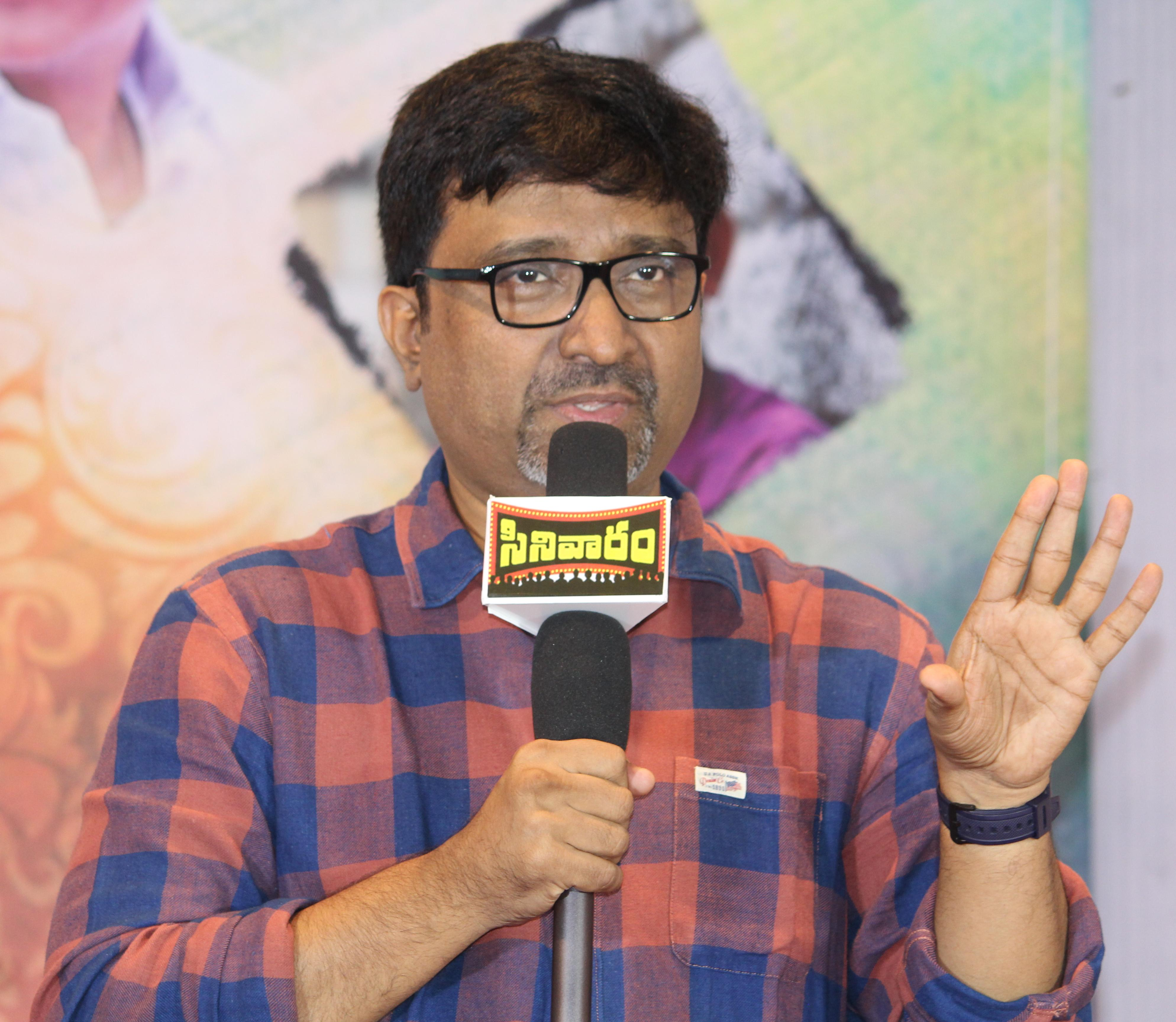 Mohan Krishna Indraganti in Cinivaram, Ravindra Bharathi, Hyderabad